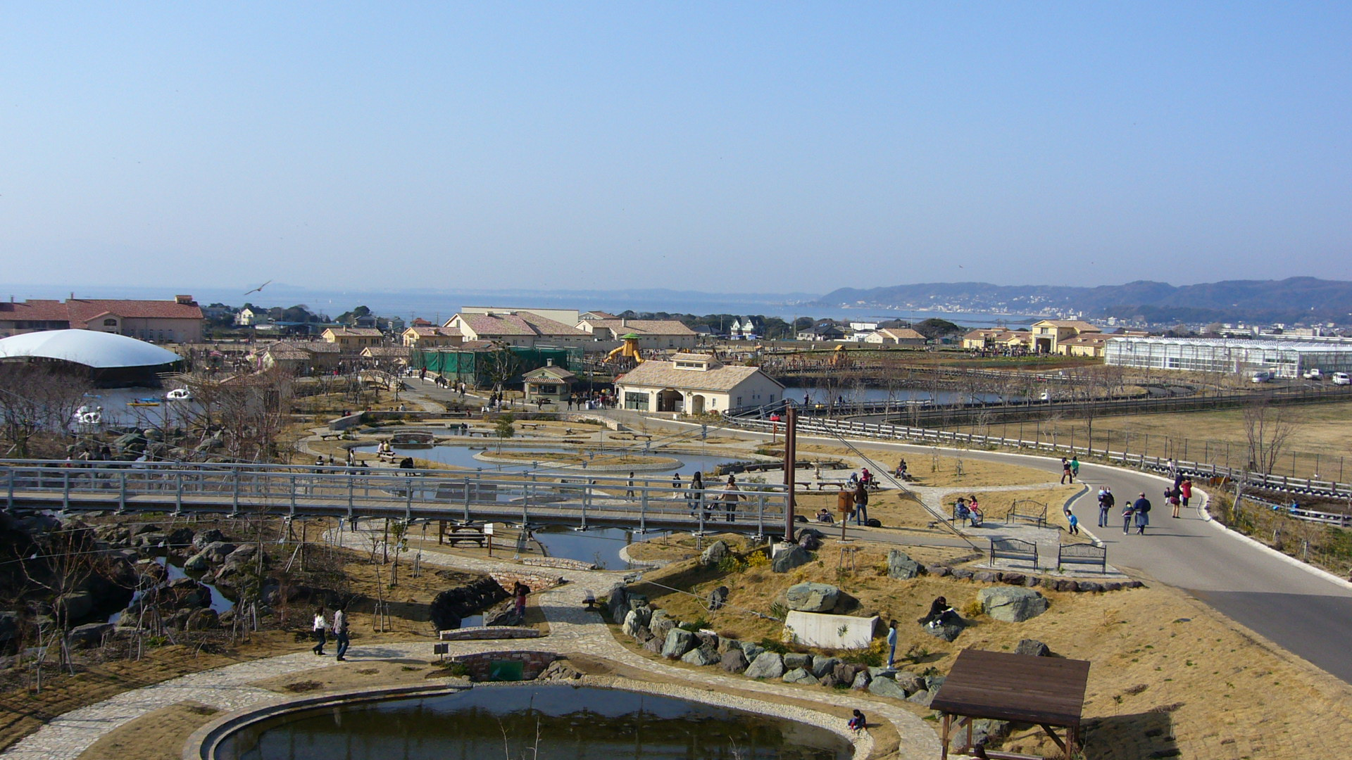 Yokosuka soleil